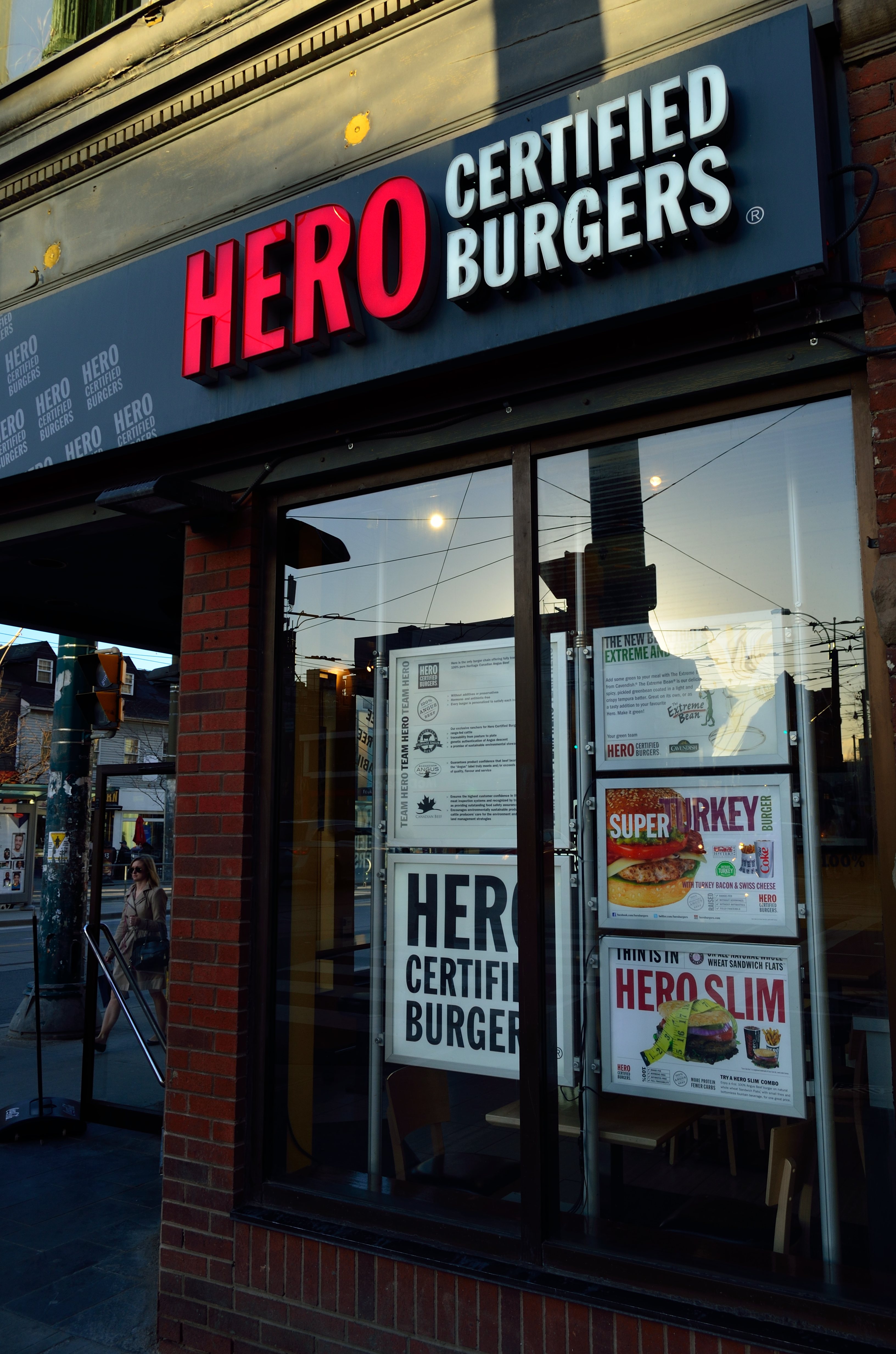 Hero Certified Burgers - 441 Queen Street West, Toronto